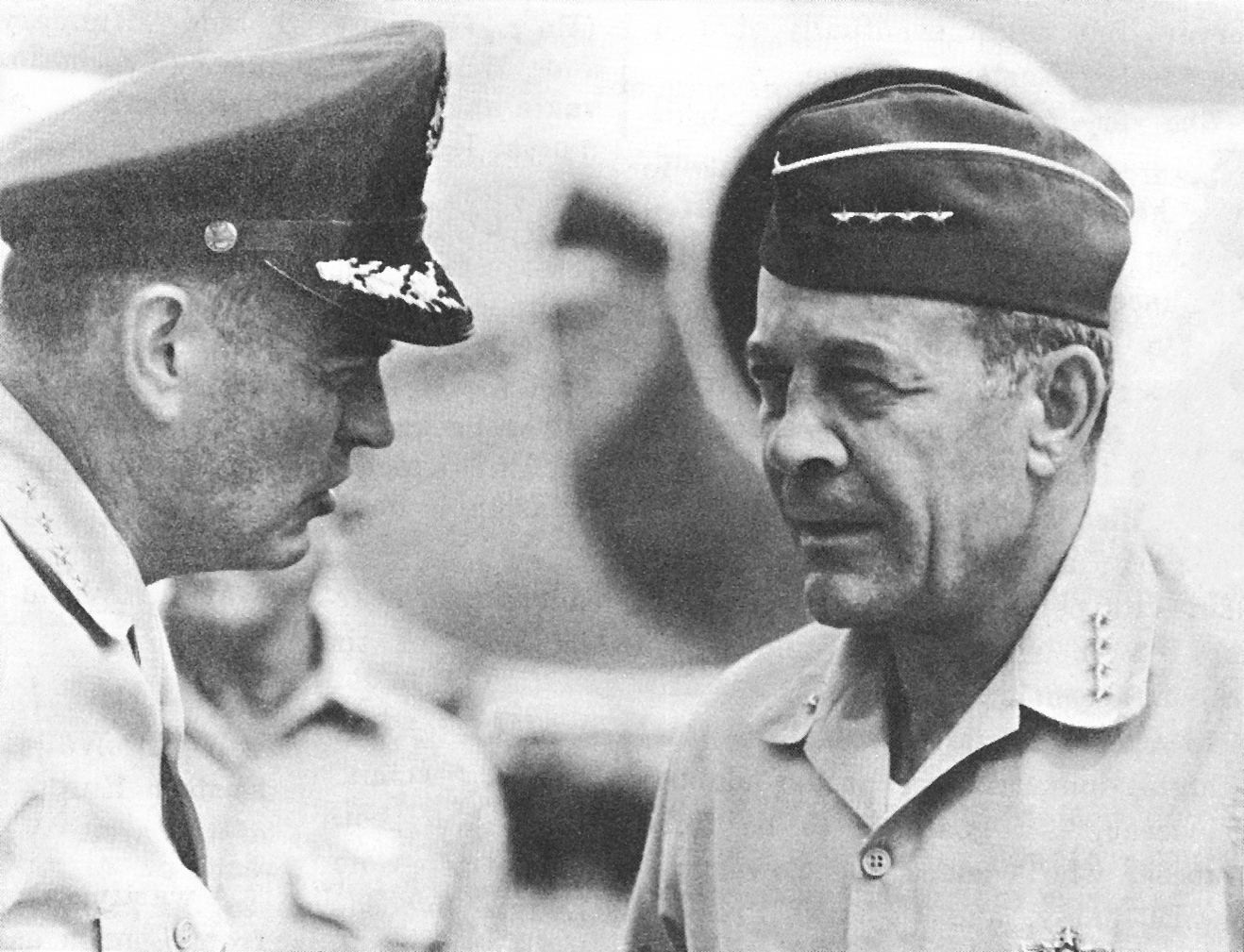 Original caption: PACAF COMMANDER ARRIVES -- Gen. Joseph J. Nazzaro (right), commander-in-chief, Pacific Air Forces, is greeted on his recent arrival at Tan Son Nhut Air Base by Gen. George S. Brown, 7th AF commander. Gen. Nazzaro visited Southeast Asia for the first time since assuming command of PACAF Aug. 1.